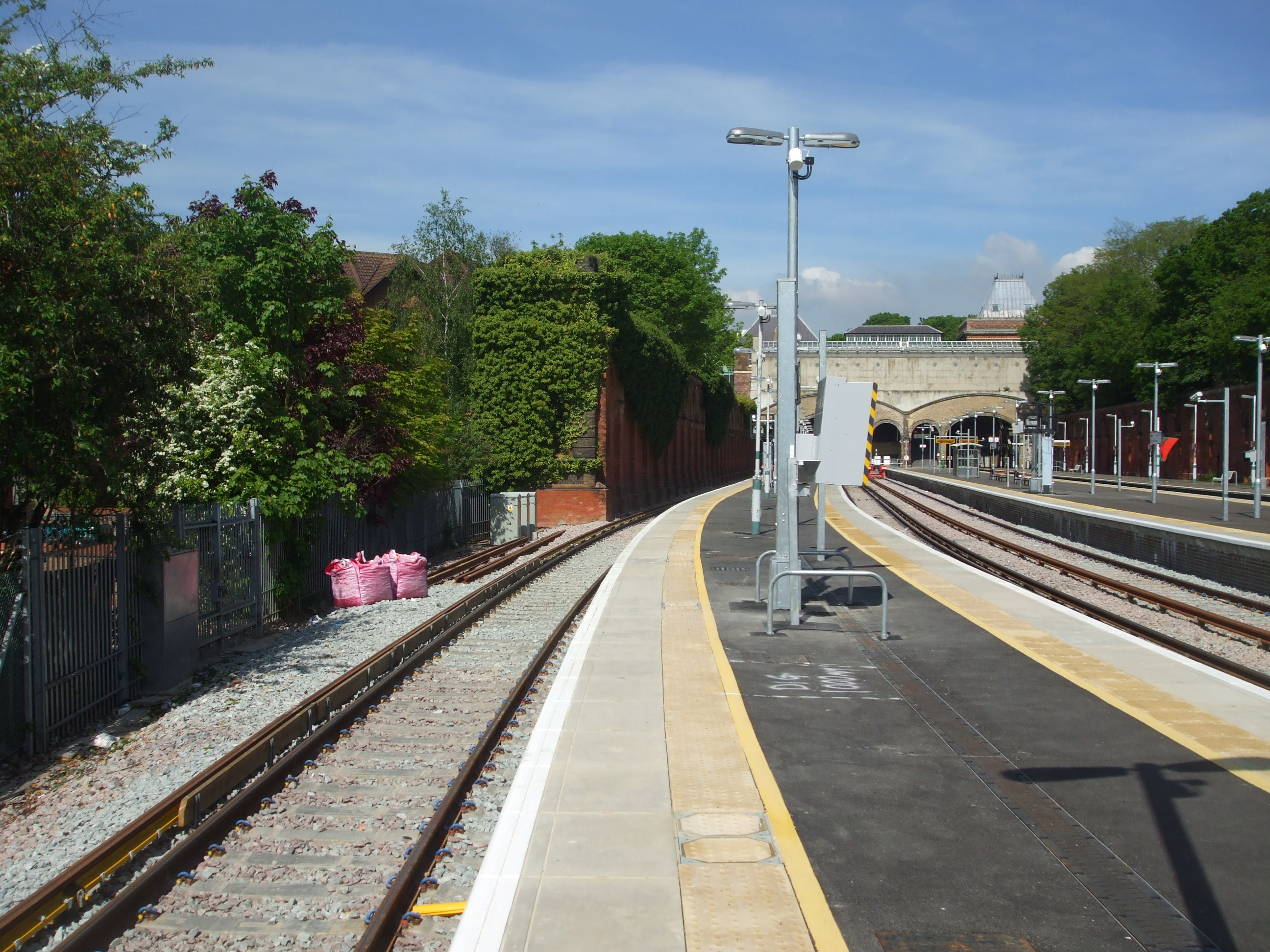 Crystal Palace station newly remodelled East London Line/London Bridge via Forest Hill platforms, viewed in the westerly direction from terminating platform 3. Terminating platform 5 can be seen the other side of through platform 4 (trains towards Gipsy Hill etc.). Photo May 2010, a few days prior to East London Line services commencing at the station. The Croydon/Beckenham platforms (1 and 2) were unchanged by the rebuilding works.